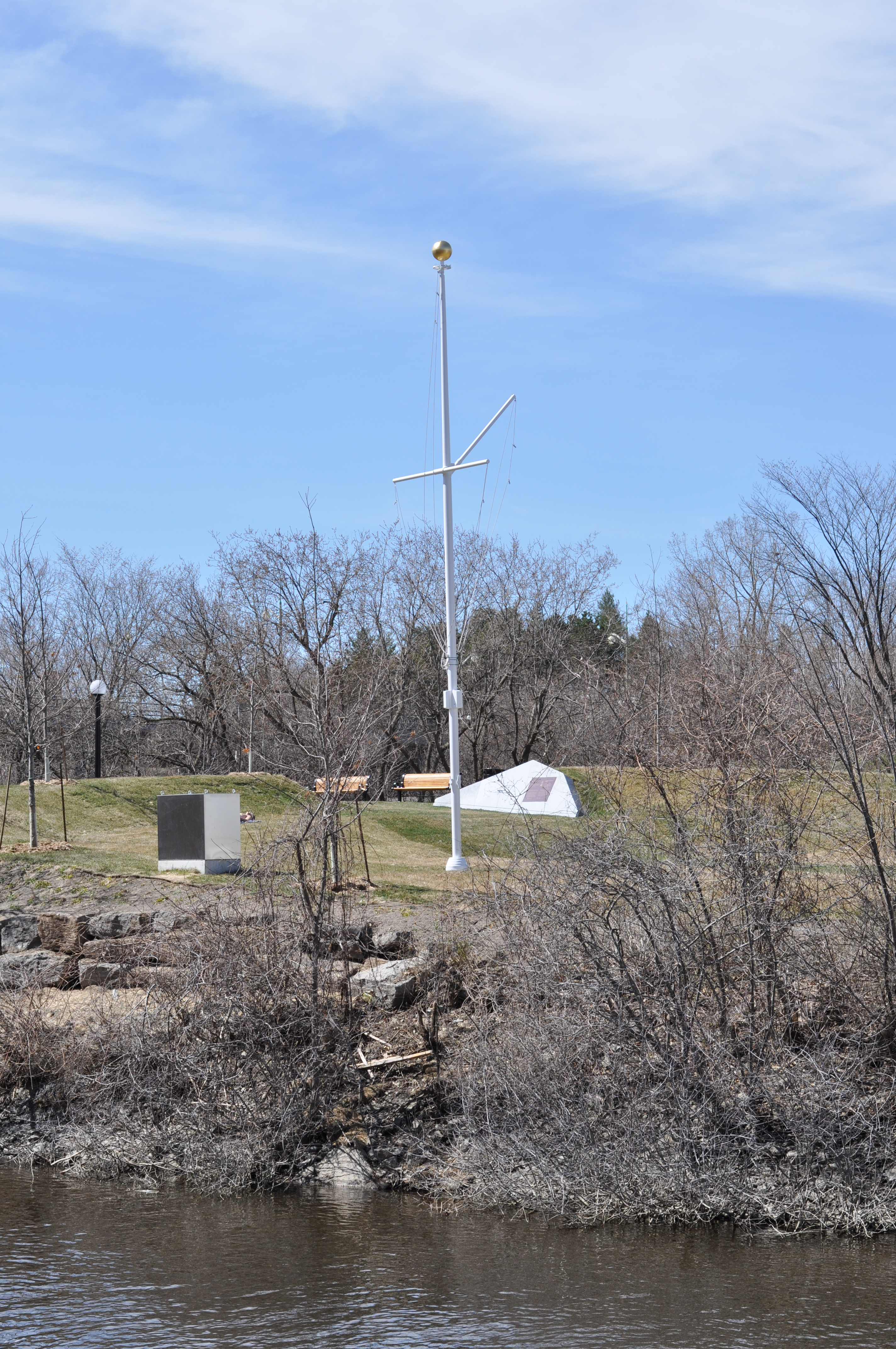 The white mast, topped by a golden sphere, and shallow turf amphitheatre (with its marble-lined ceremonial entrance) of the Royal Canadian Navy Monument at Richmond Landing in Ottawa, Ontario, Canada.